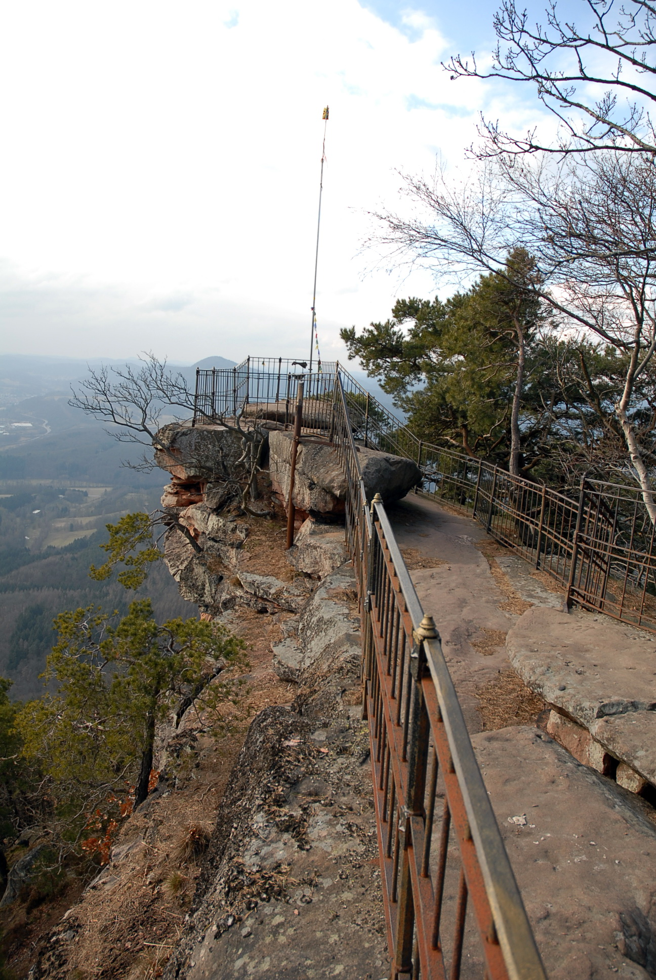 Mountain top of the "Orensberg" named "Orensfelsen"